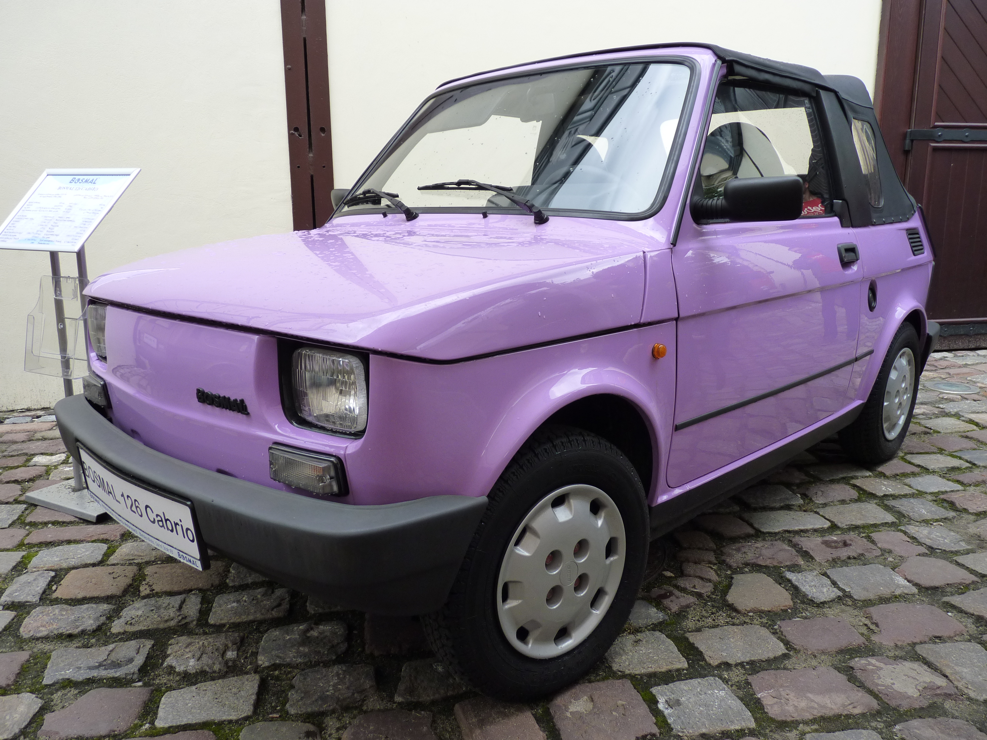 Classic Moto Show 2015 in Kraków.